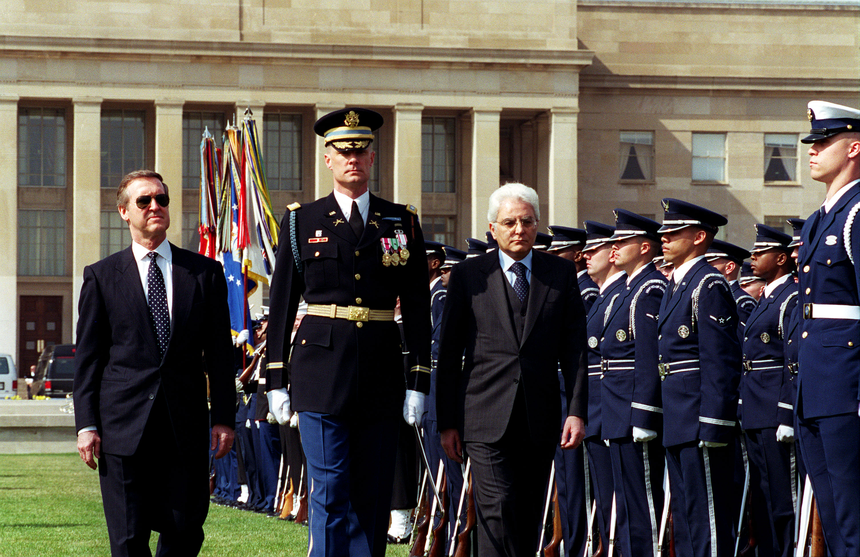 Commander of Troops Lt. Col. Charles Sniffin (center), U.S. Army, escorts Secretary of Defense William S. Cohen (left) and his guest Minister of Defense Sergio Mattarella (right), of Italy, as Mattarella inspects the troops during an armed forces welcoming ceremony at the Pentagon on March 23, 2000. Sniffin is attached to the 3rd U.S. Infantry Regiment (The Old Guard).